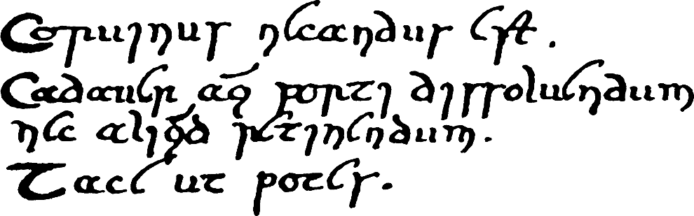 Mysterious message printed as part of the novella The Case of Charles Dexter Ward.